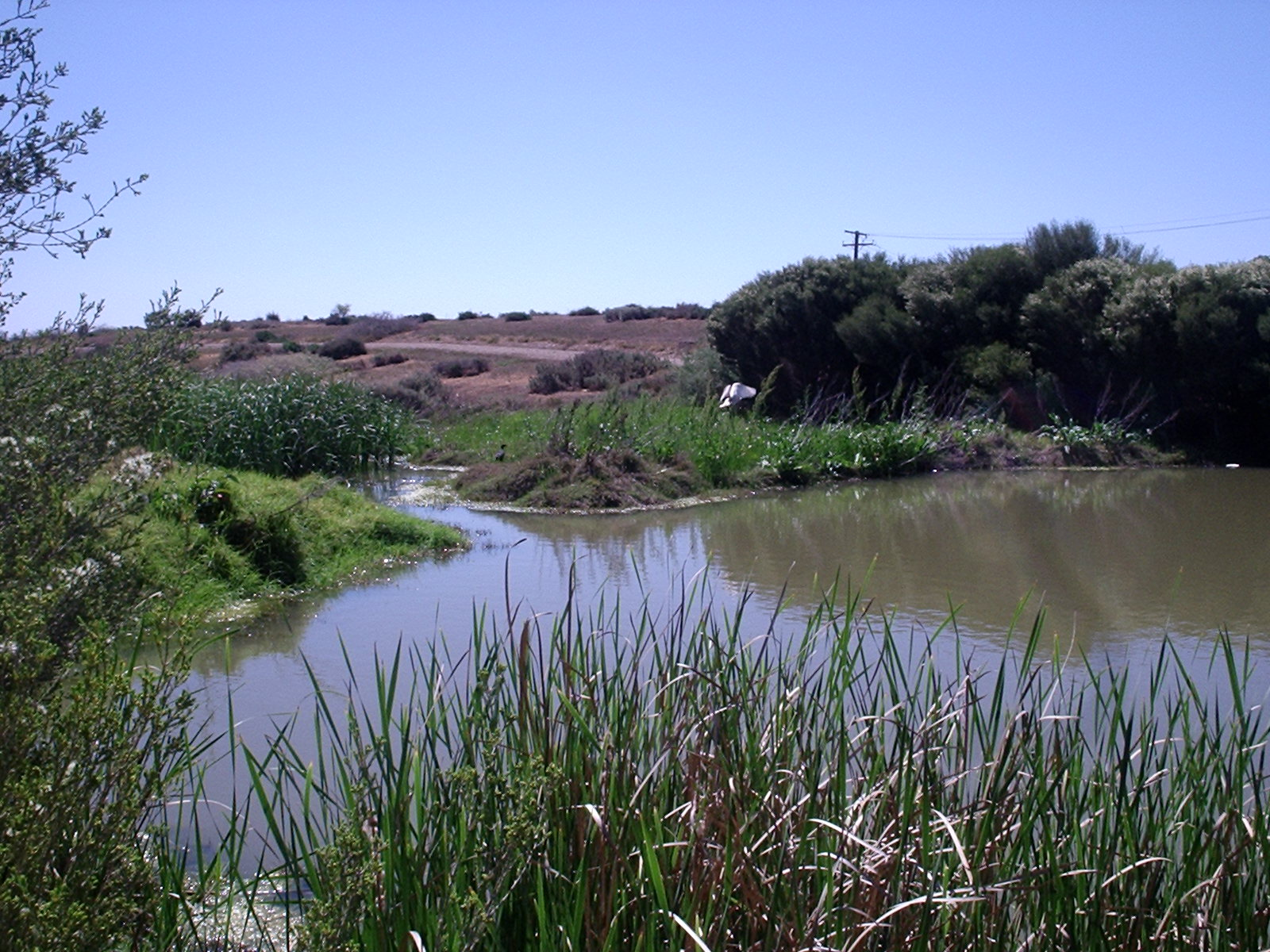 Picture of the Barker Inlet wetlands at Dry Creek, South Australia